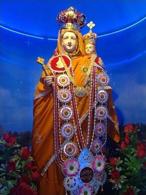 Polichalur Punitha Arokia Annai Image